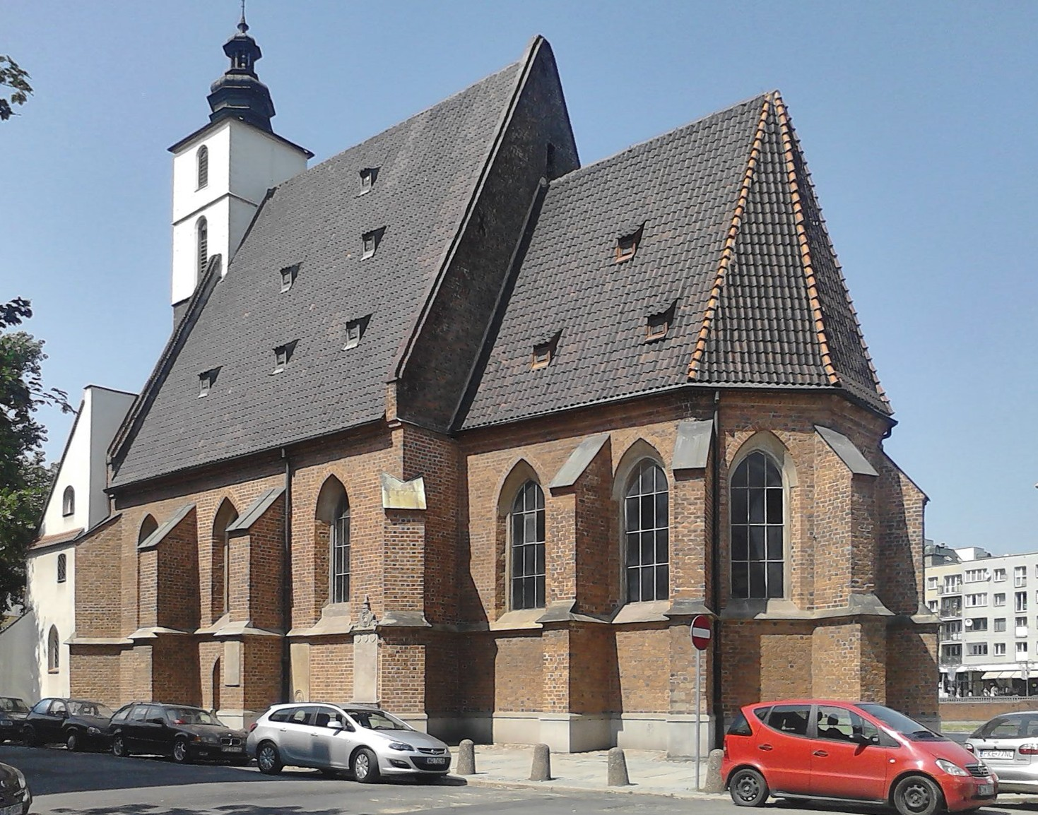 St. Christopher church in Wrocław